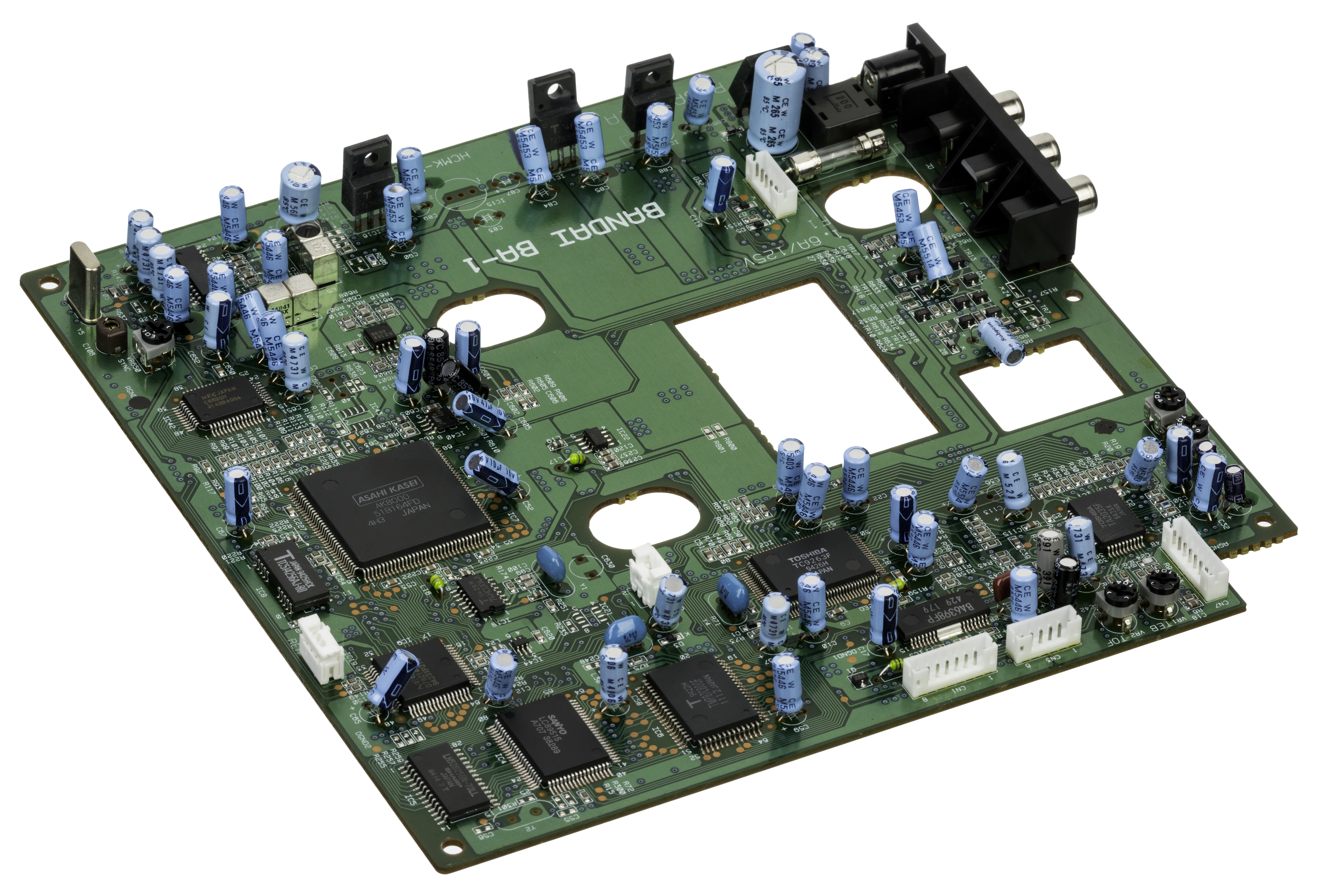 The motherboard of a Bandai Playdia, a video game console that was only released in Japan. The Playdia came out in 1994 and was intended for a young audience. It has a small library of games mostly comprised of anime-themed edutainment titles.